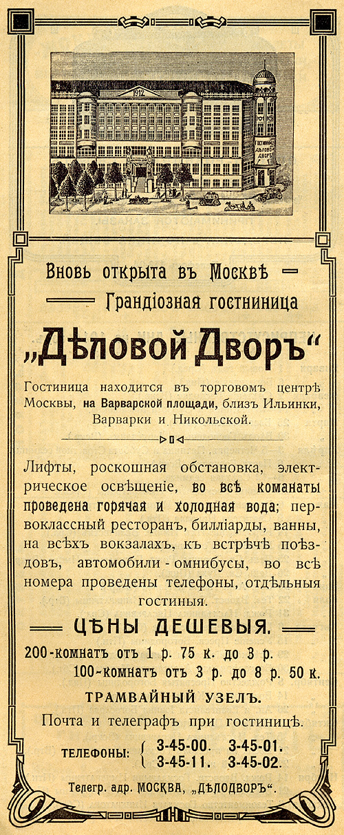 Newspaper ad touting a hotel Delovoy Dvor in Moscow